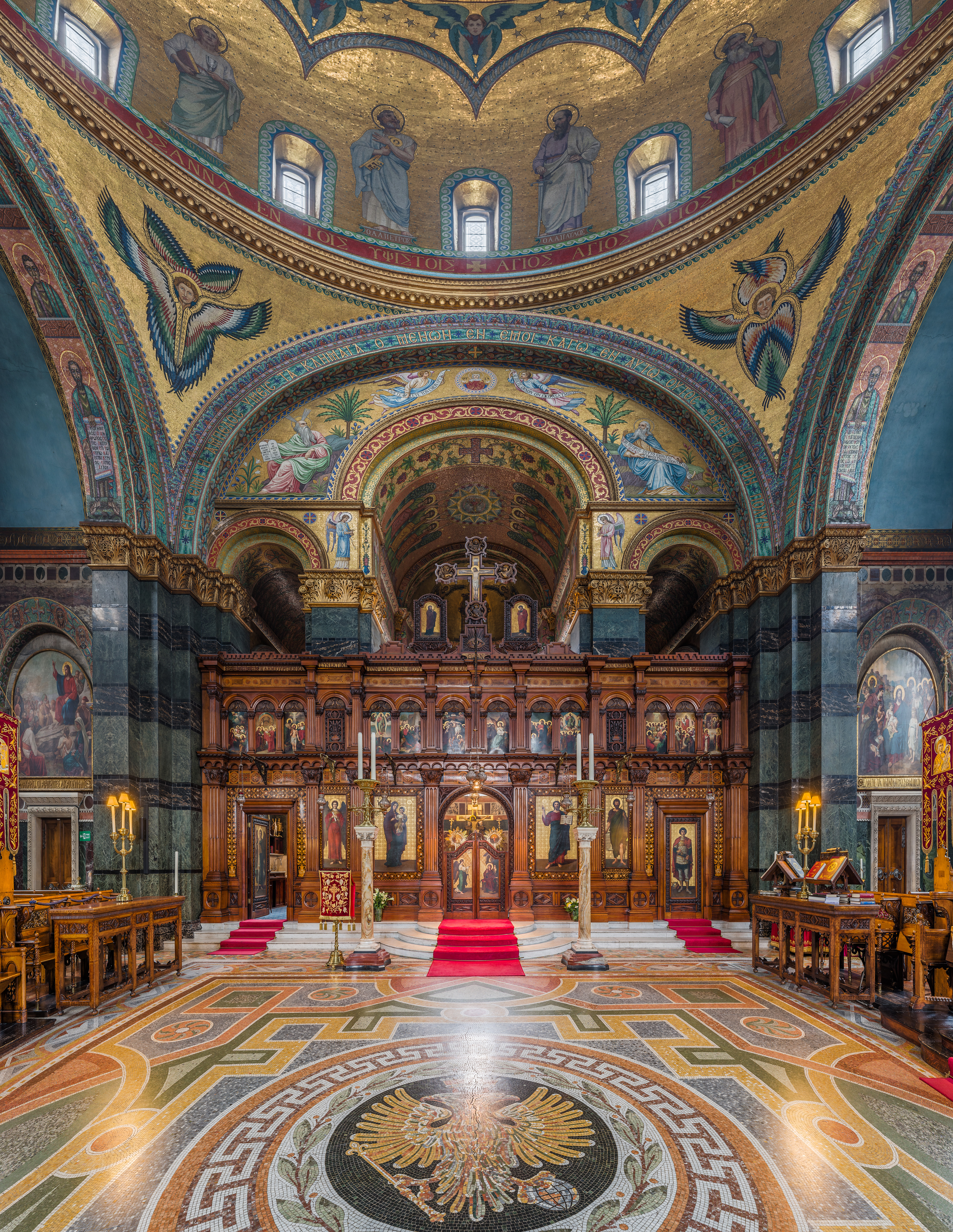 The interior of St Sophia's Greek Orthodox Cathedral in Paddington, London, England.